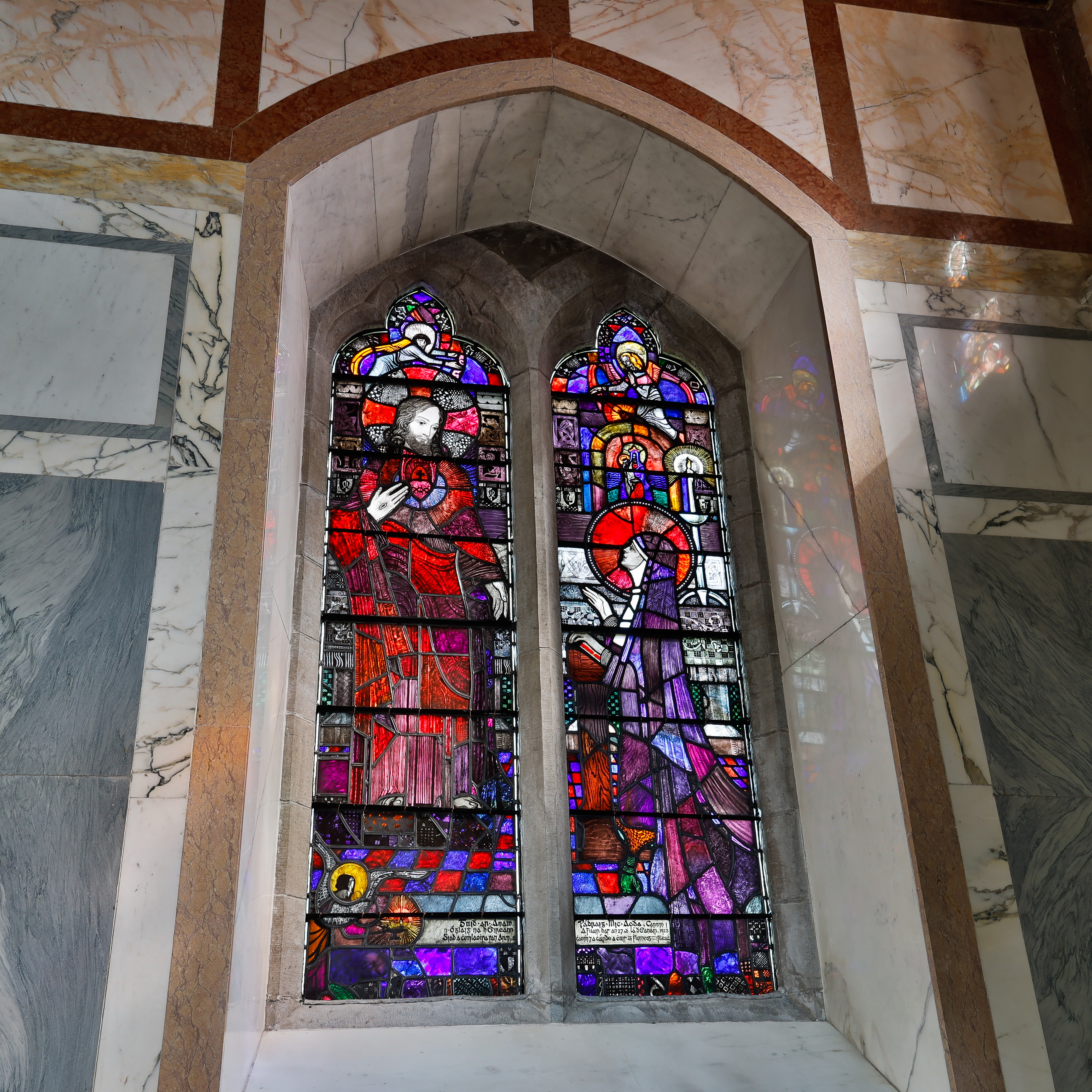 Stained glass window by Hubert McGoldrick (1897–1967), depicting Christ of the Sacred Heart appearing to St. Margaret Mary. This window is located in the east wall (liturgically north) of the Sacred Heart Altar. This work was created in 1925 in the An Túr Gloine workshop in Dublin and exhibited in Dublin and Belfast before its installation in Loughrea. (See Nicola Gordon Bowe et al, Gazetteer of Irish Stained Glass, ISBN 0-7165-2413-9, p. 57; St Brendan's Cathedral, Loughrea, ISBN 0-900346-76-0.) Wikidata has entry Q7592699 with data related to this item.